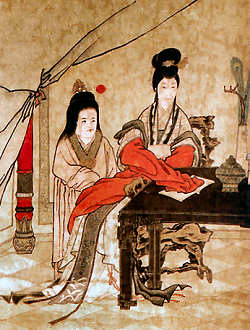 Crown Prince Zhu Biao and his mother, Empress Ma